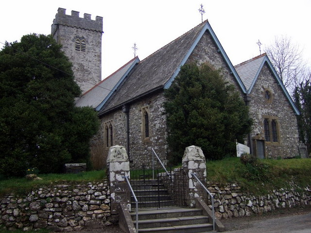 New Moat church From the east: most of the main body of the church was rebuilt in the C19 and restored again in 2002 with a lottery grant (acknowledged on the notice). The churchyard is raised and backed by fields and farmyard.